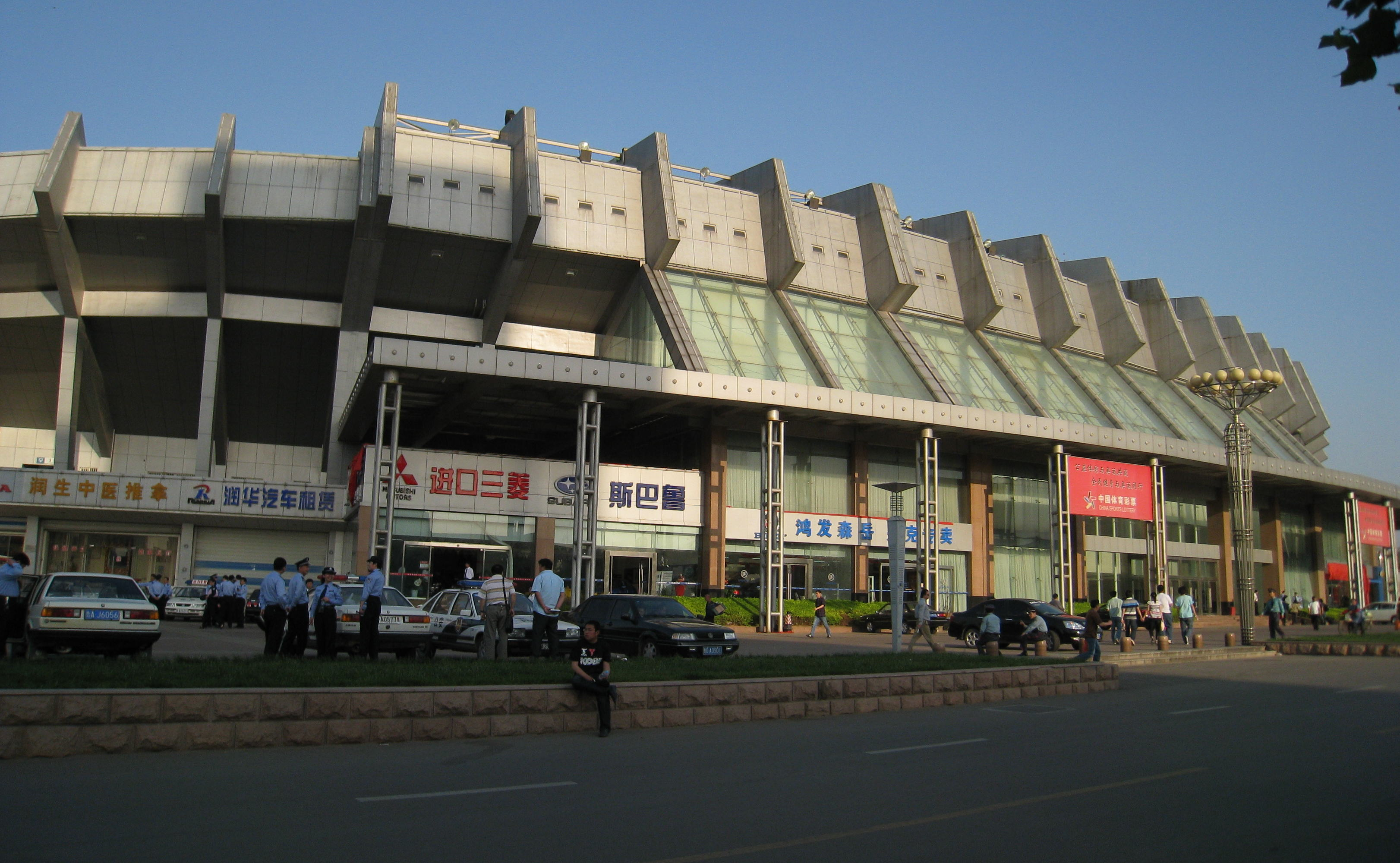 Shandong Sports Stadium in Jinan City. Photo was taken by myself. Shandong vs Ganba-Oosaka. Asia Champions League 2009